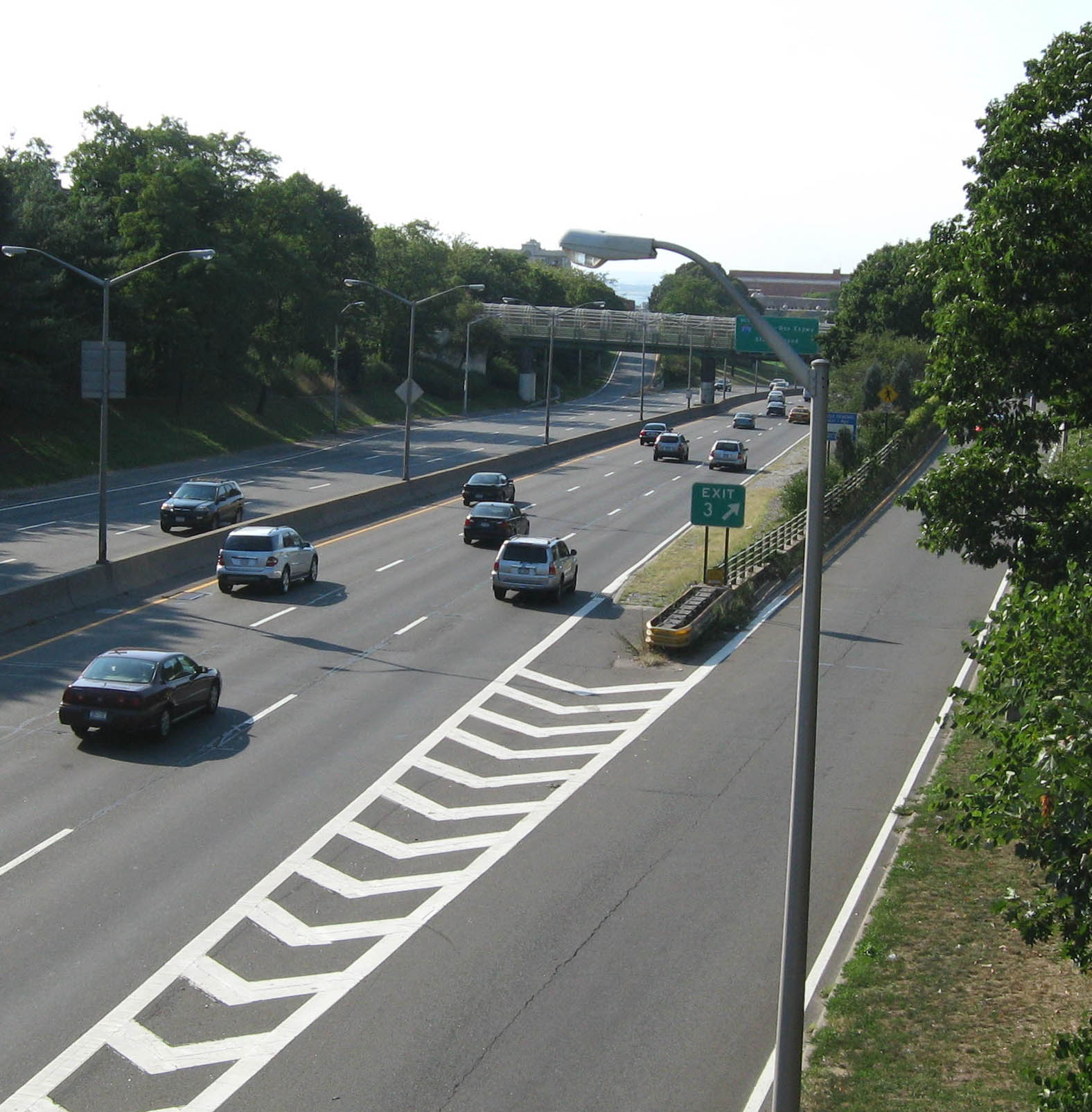 Looking west from Prospect Park West overpass into Prospect Expressway on a sunny afternoon